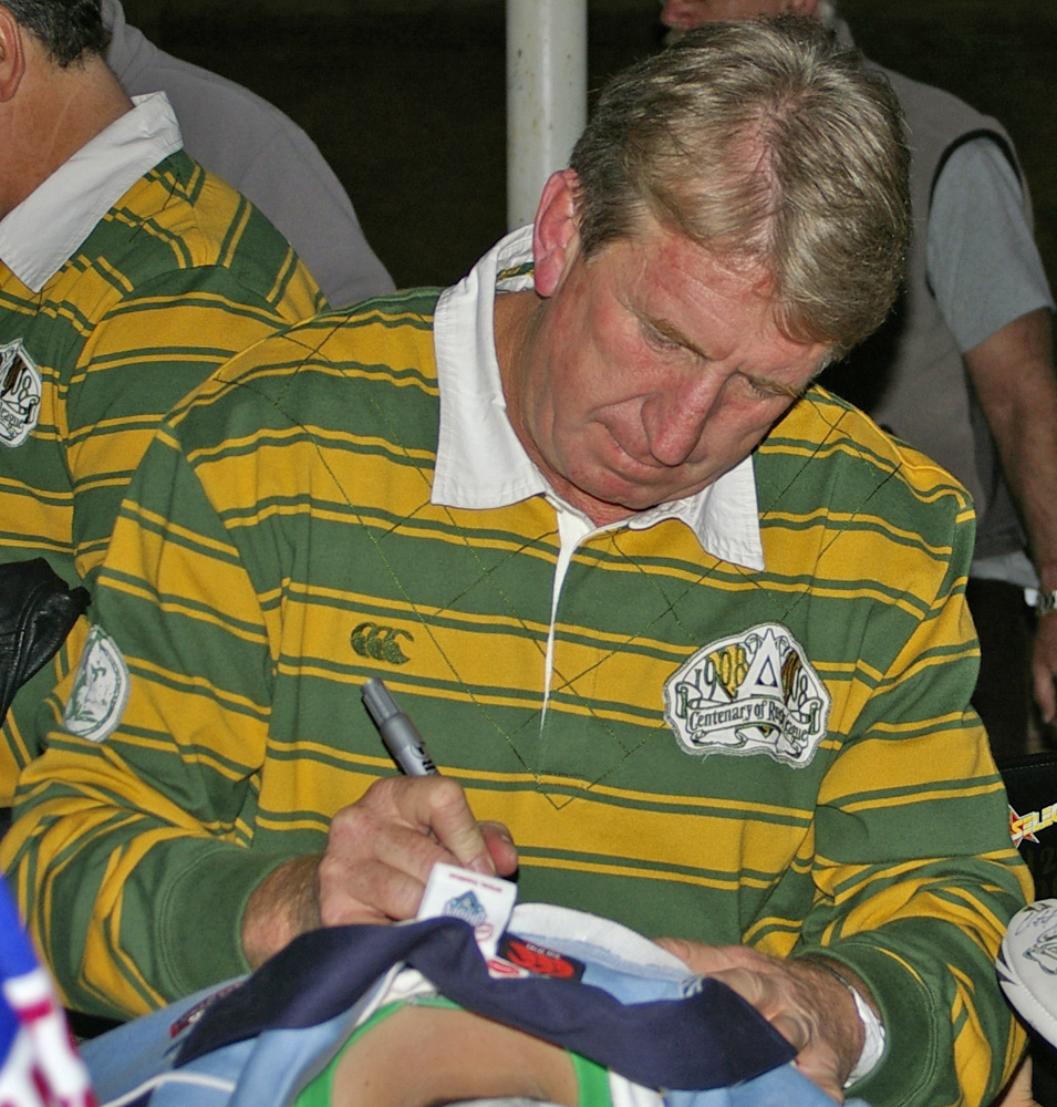 Steve Mortimer autographing.